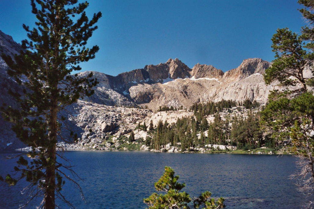 Peter Pande Lake on the Silver Divide